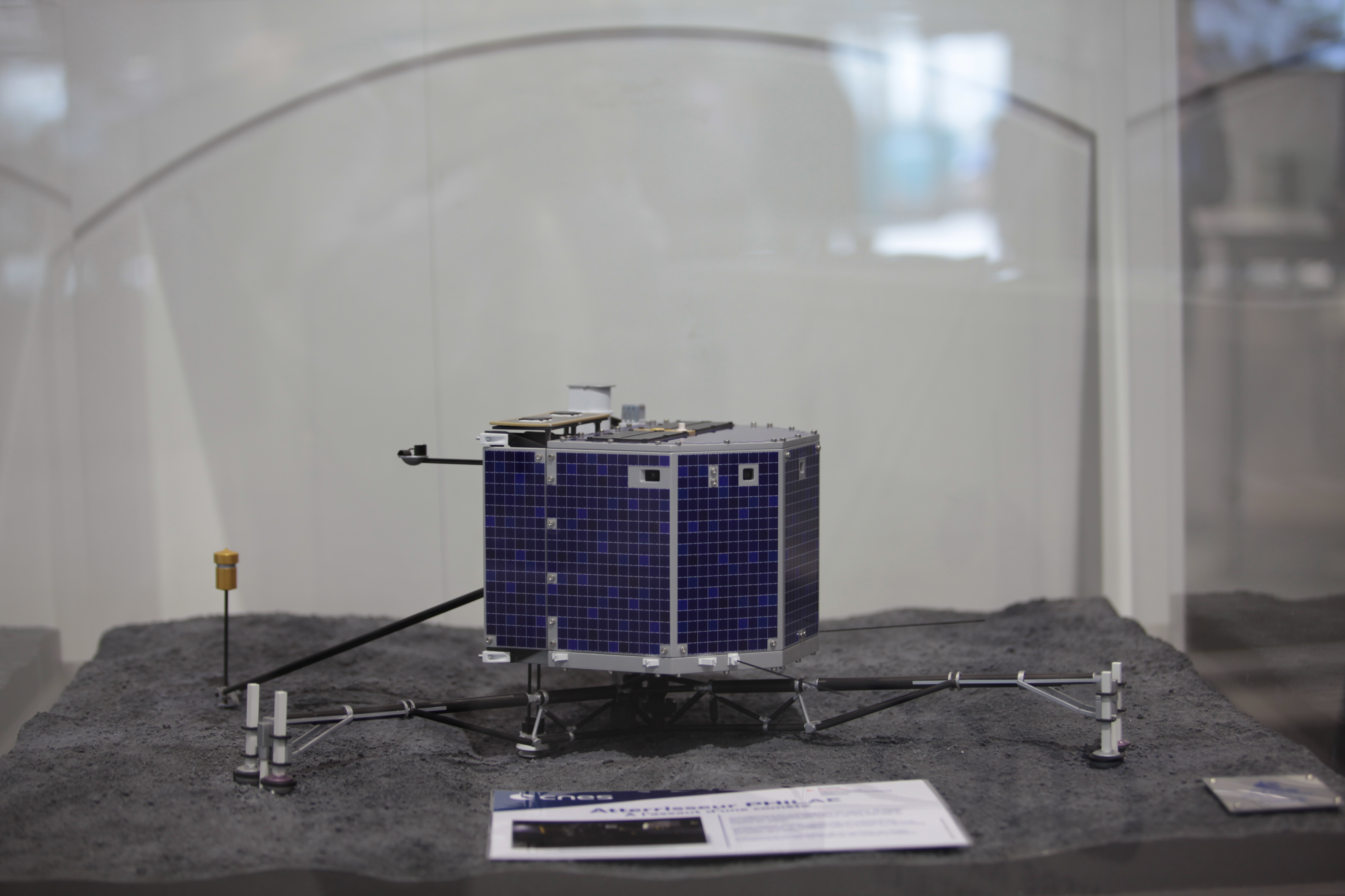 Ein Modell vom Kometenlander Philae befindet sich bei dem CNES-Exponat am DLR-Stand / A model of the comet lander has a place at the CNES exhibit on the DLR stand.